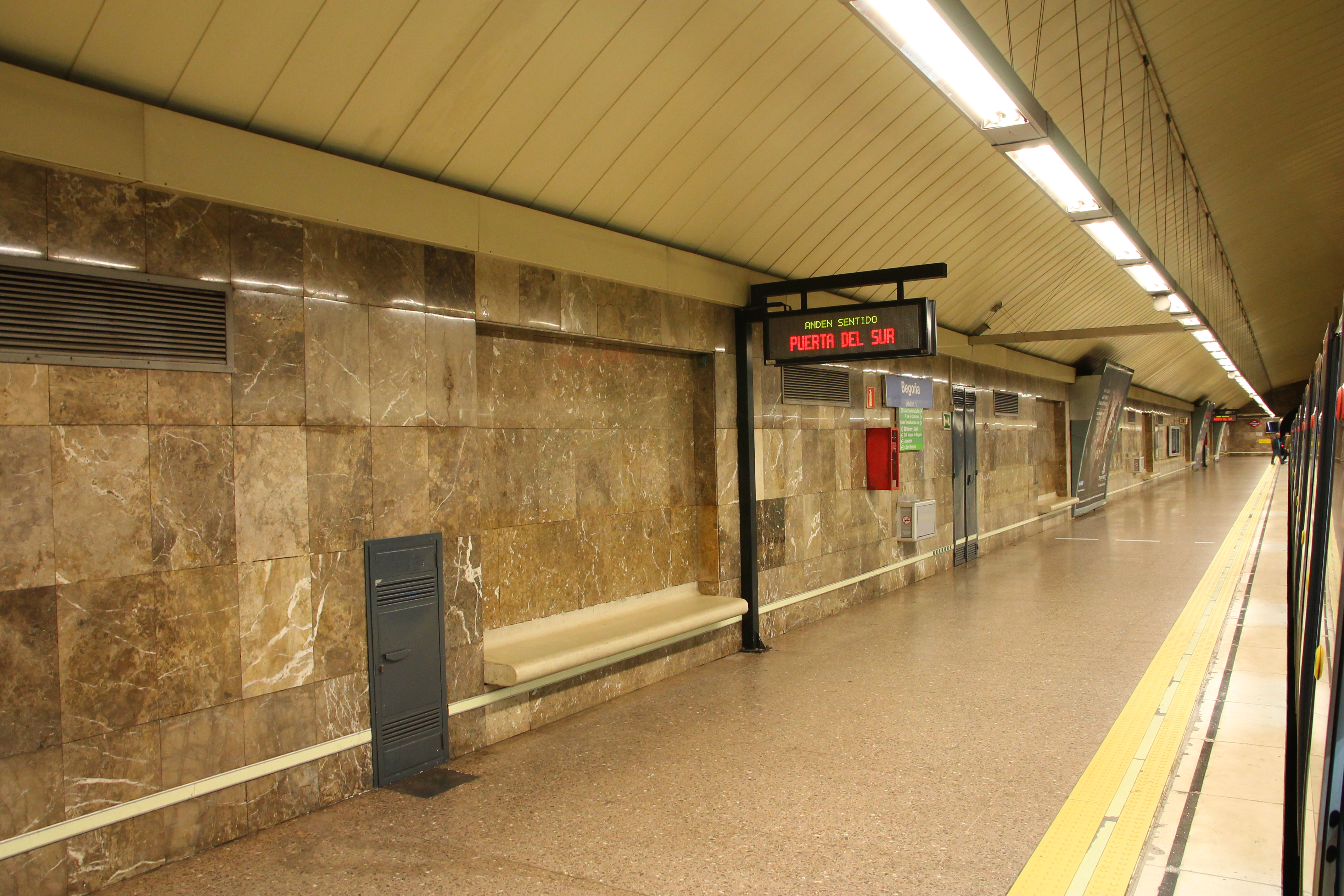 Estación de Begoña